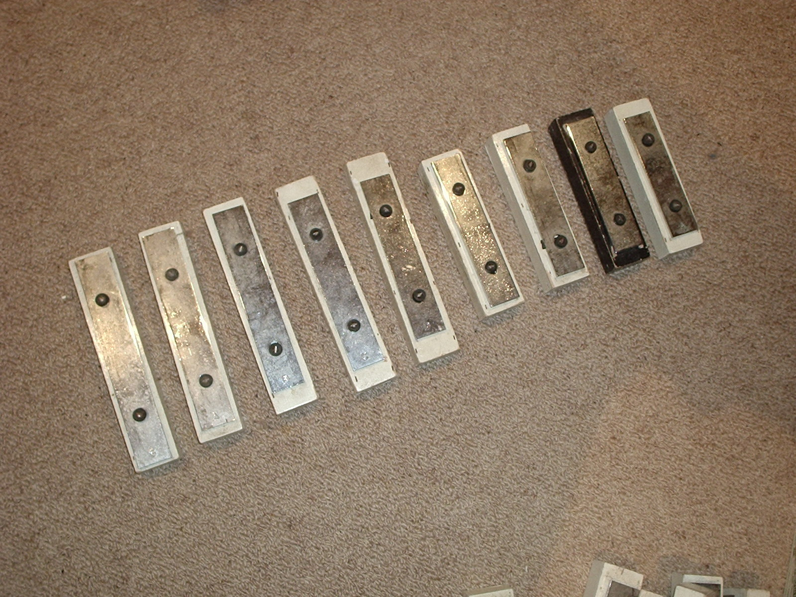 A diatonic set of nine bar chimes G - A